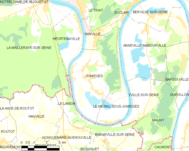 Map of French municipality Jumièges